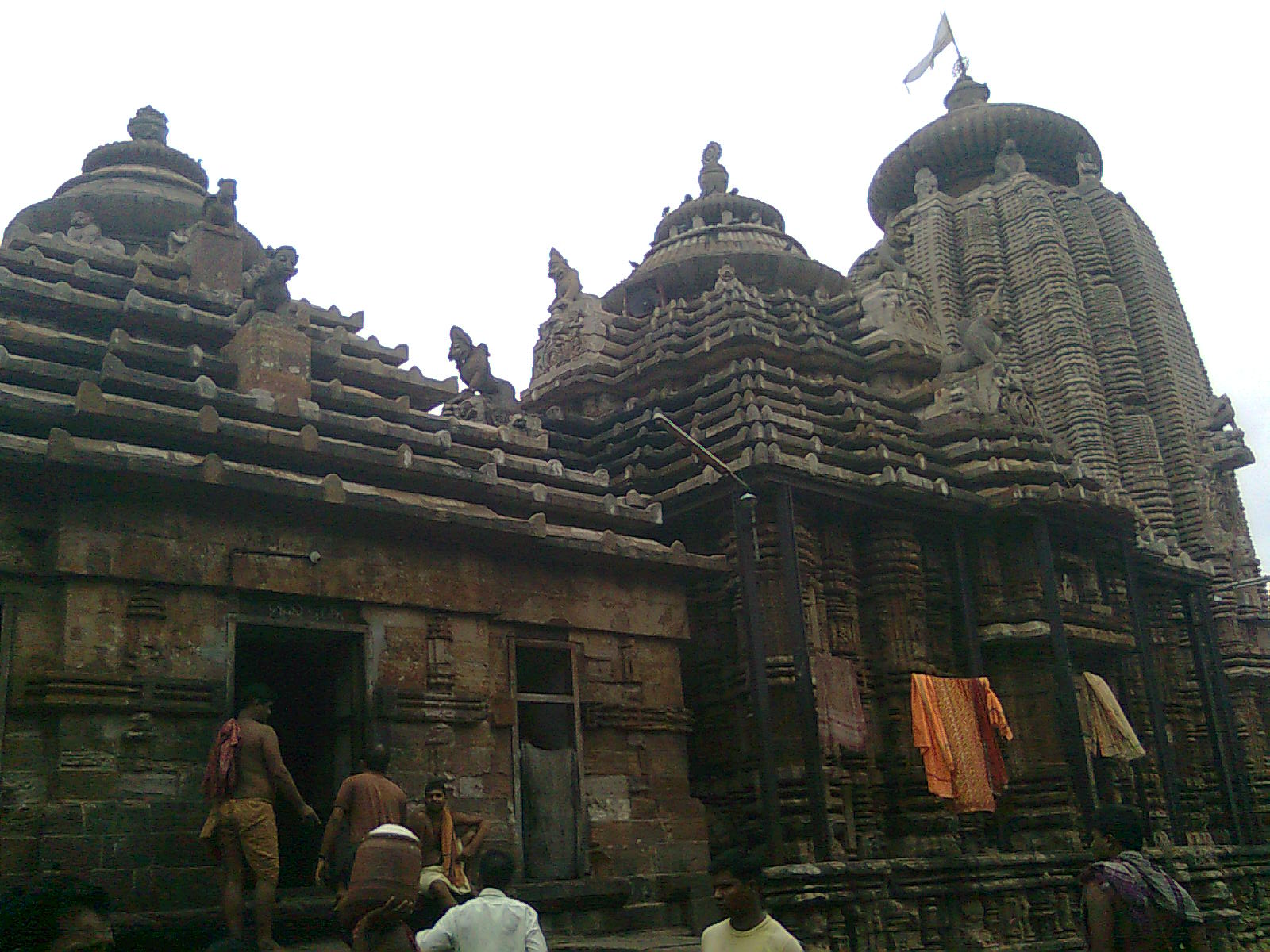 Temple of Ananta Vasudeva,Bhuvaneshwar